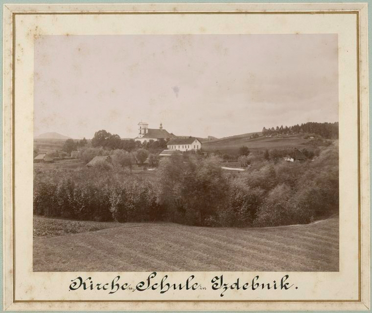 Church and school in Izdebnik